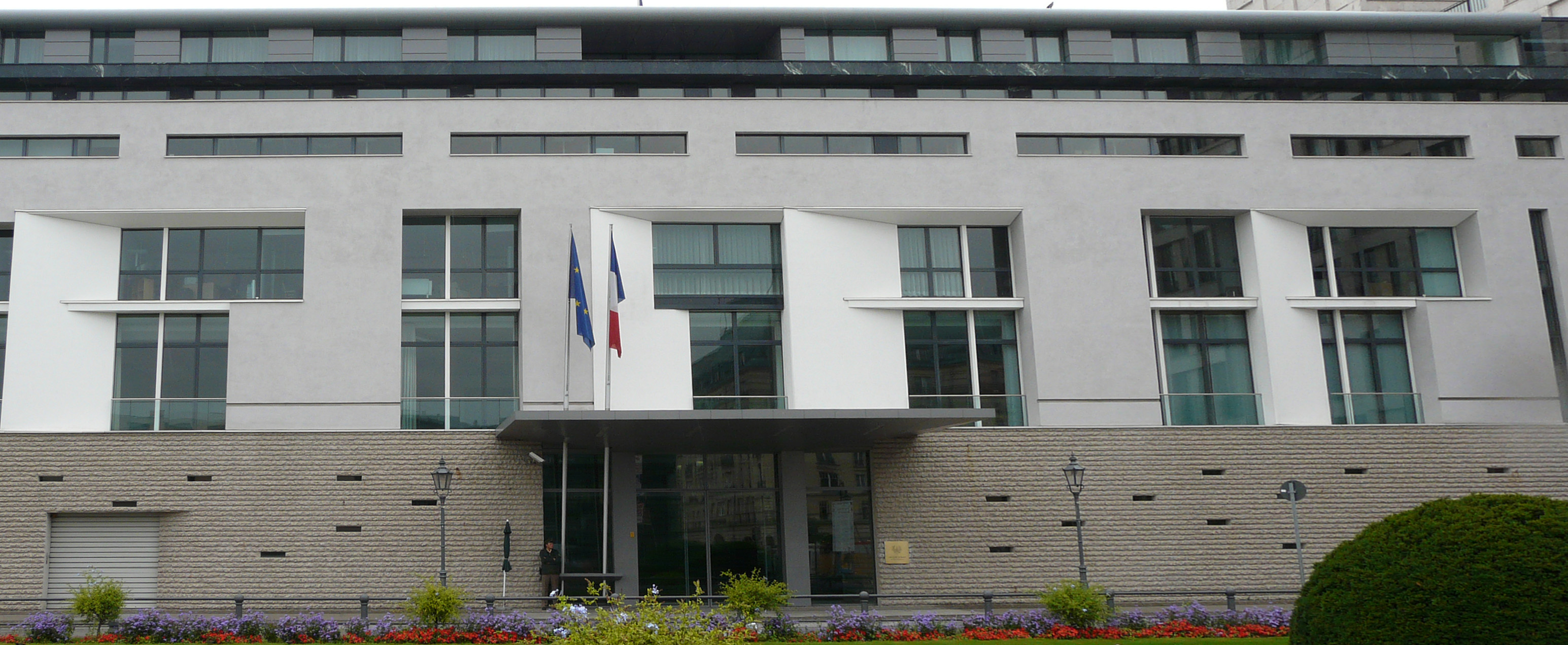 French embassy in Berlin (Germany)